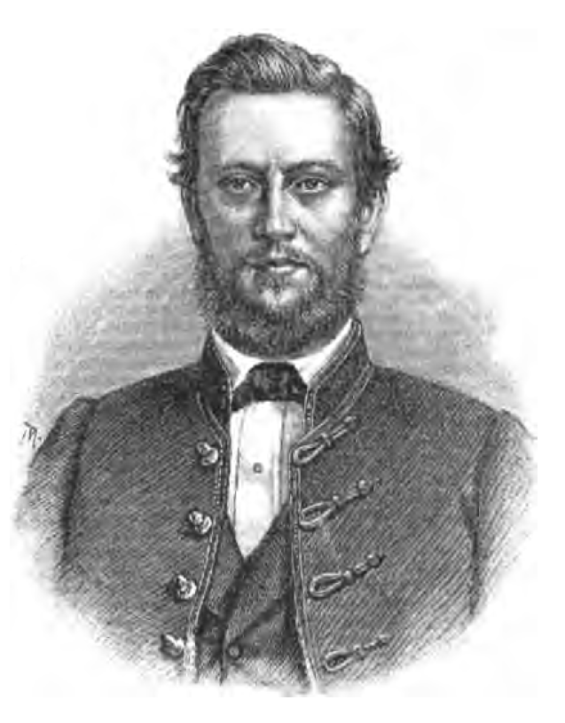 Luka Botić, Croatian writer and politician